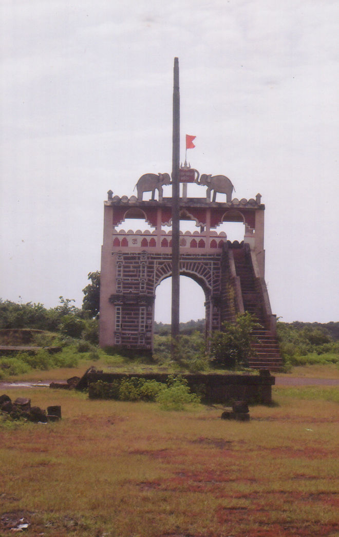 Mast of the Portuguese ship Santa Anna. It was captured in 1772 by Janojirao Dhulap, Admiral of the Maratha Fleet at Vijaydurg